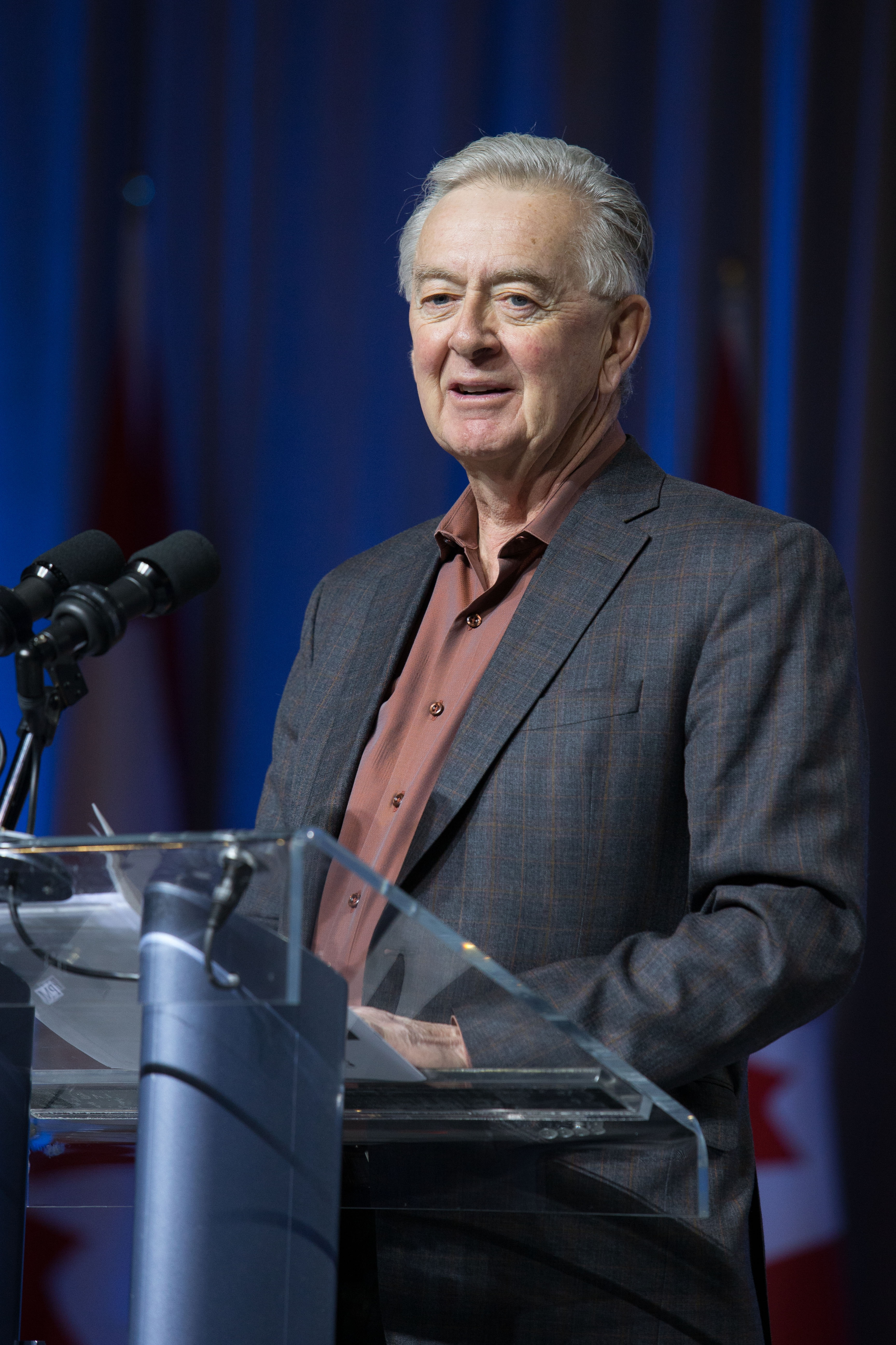 Preston Manning